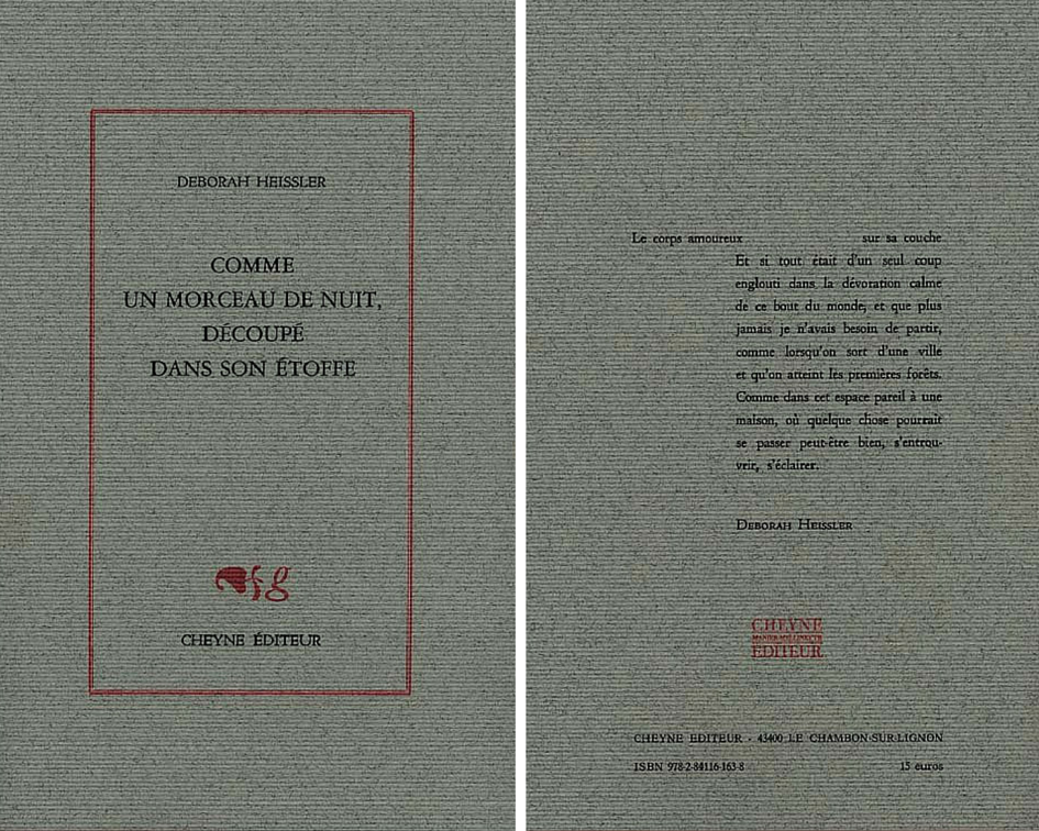 Comme un morceau de nuit, découpé dans son étoffe, Préface de Dominique Sorrente, Éditions Cheyne, coll. Grise, Chambon-sur-Lignon, 2010.